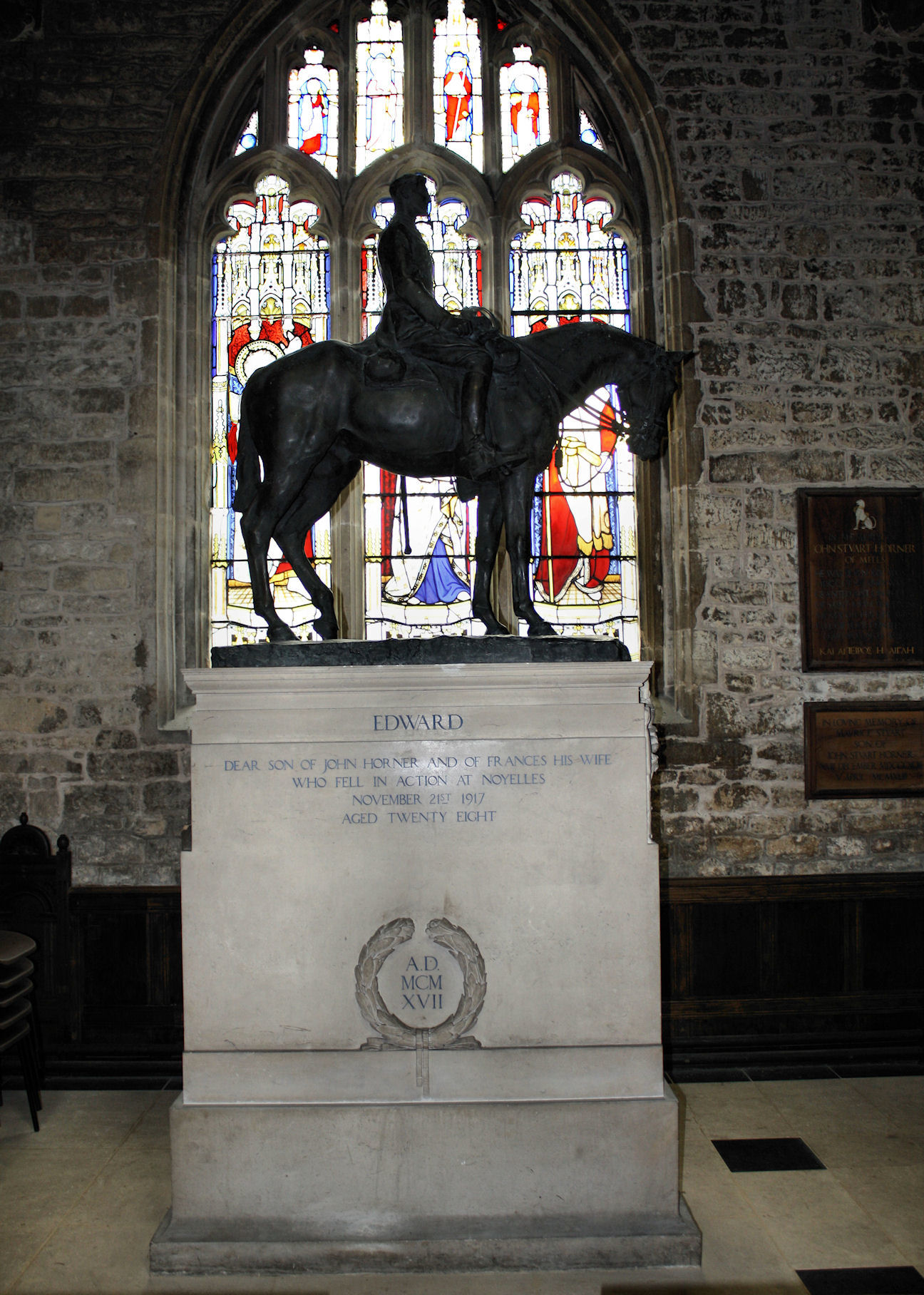 Edward Horner (1883-1917) was one of the two sons of Sir John Horner. His younger brother, Mark, died aged 16 in 1908. A year before, his sister Katherine had married Raymond Asquith the eldest son of Herbert Henry Asquith, Prime Minister of Great Britain from 1908-1916. Raymond was killed in action in 1916 and Edward died from wounds sustained at Noyelles in Picardy, France on 21 November 1917. Both he and Raymond are remembered in the Parish Church of Mells, Somerset. The village had been the ancestral home of the Horner family from the 16th century and was subsequently to become the home of the descendents of Raymond Asquith. "In St Andrew's Church, and equestrian bronze by Alfred Munnings standing on a pedestal by Lutyens poignantly evokes the last age of chivalry. It commemorates Edward Horner, whose body lies where he fell in France. Horner was remembered by his friend Reginald Hancock, a vet who published his memoirs in 1952, as 'one of the finest brains of any man I have ever known'. Wounded at Ypres, Horner was posted to Tidworth Barracks, where he arrived with his own valet, groom and charger – and objected to sharing a room with some 'some bloody awful vet', as he described Hancock. When Lutyens, who commissioned the bronze, visited Mells in 1919, he lamented to his wife: 'All their young men are killed.' He designed a village memorial in the form of a tall task in column, surmounted by a figure of St George slaying the dragon; it rises above a curved wall, into which to benches have been incorporated, for the laying of wreaths." Clive Aslet, Country Life, 7 November 2012.